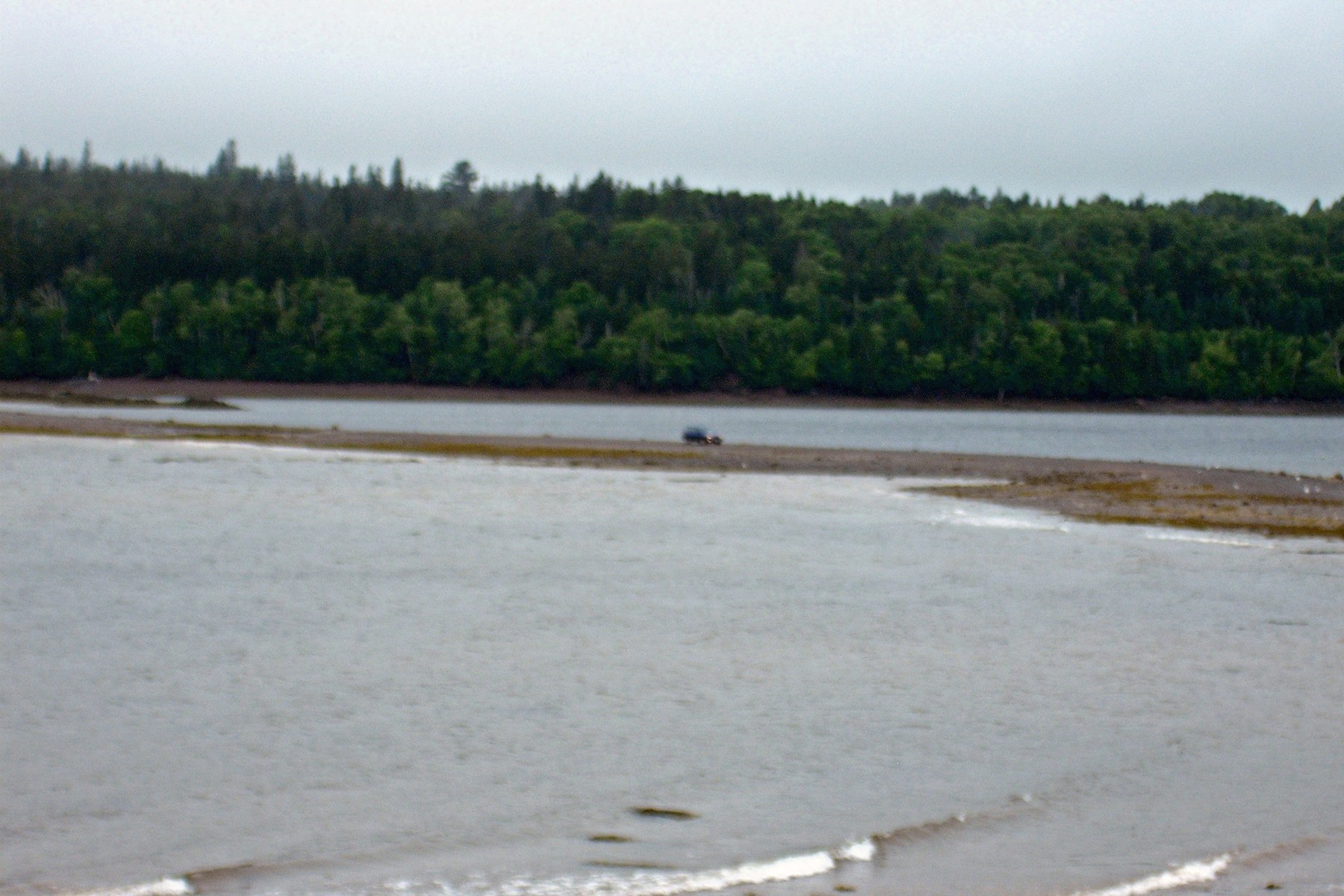 Car crossing to Ministers Island, St. Andrews (NB)